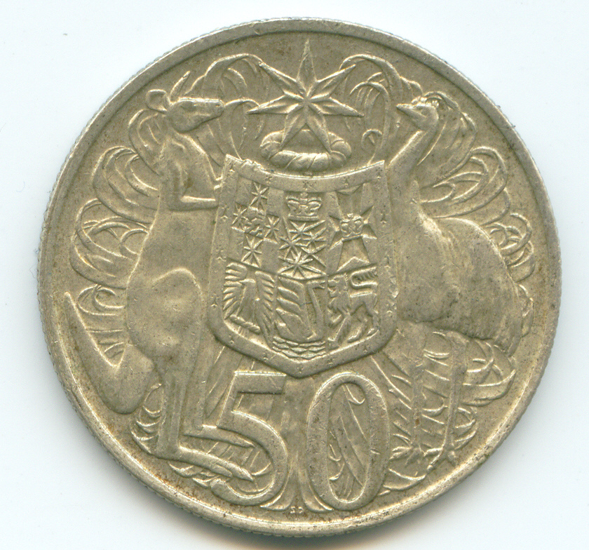 The Australian 50 cent piece was circular in 1966, before following years when it has twelve sides.